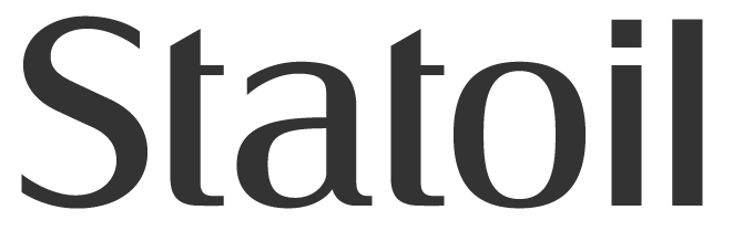 New Statoil logo (since 2009)